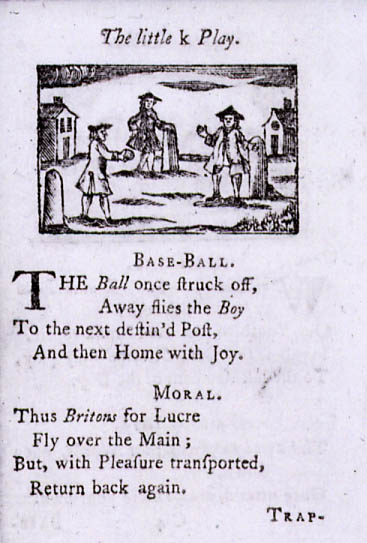 found on loc .gov site. dates from 1760 03:33, 22 September 2004 . . Allthewhile . . 367×543 (52,242 bytes)